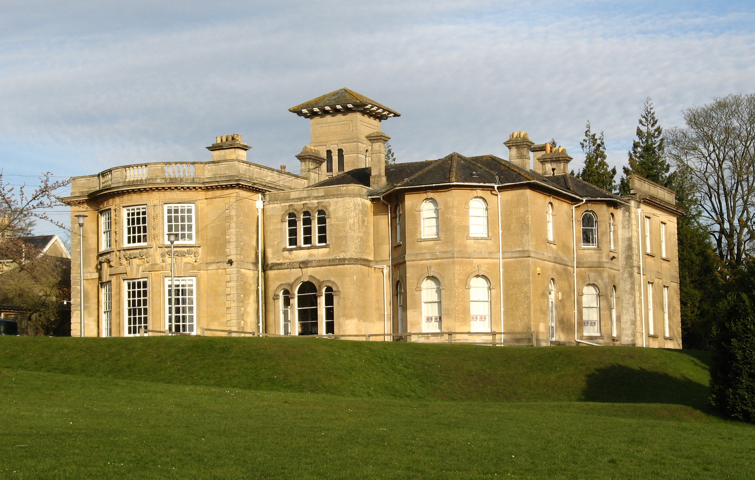 Penn House, Oldfield School, Newbridge, Bath. Penn House dates from the early 1900s, and is largely used as sixth form accommodation.